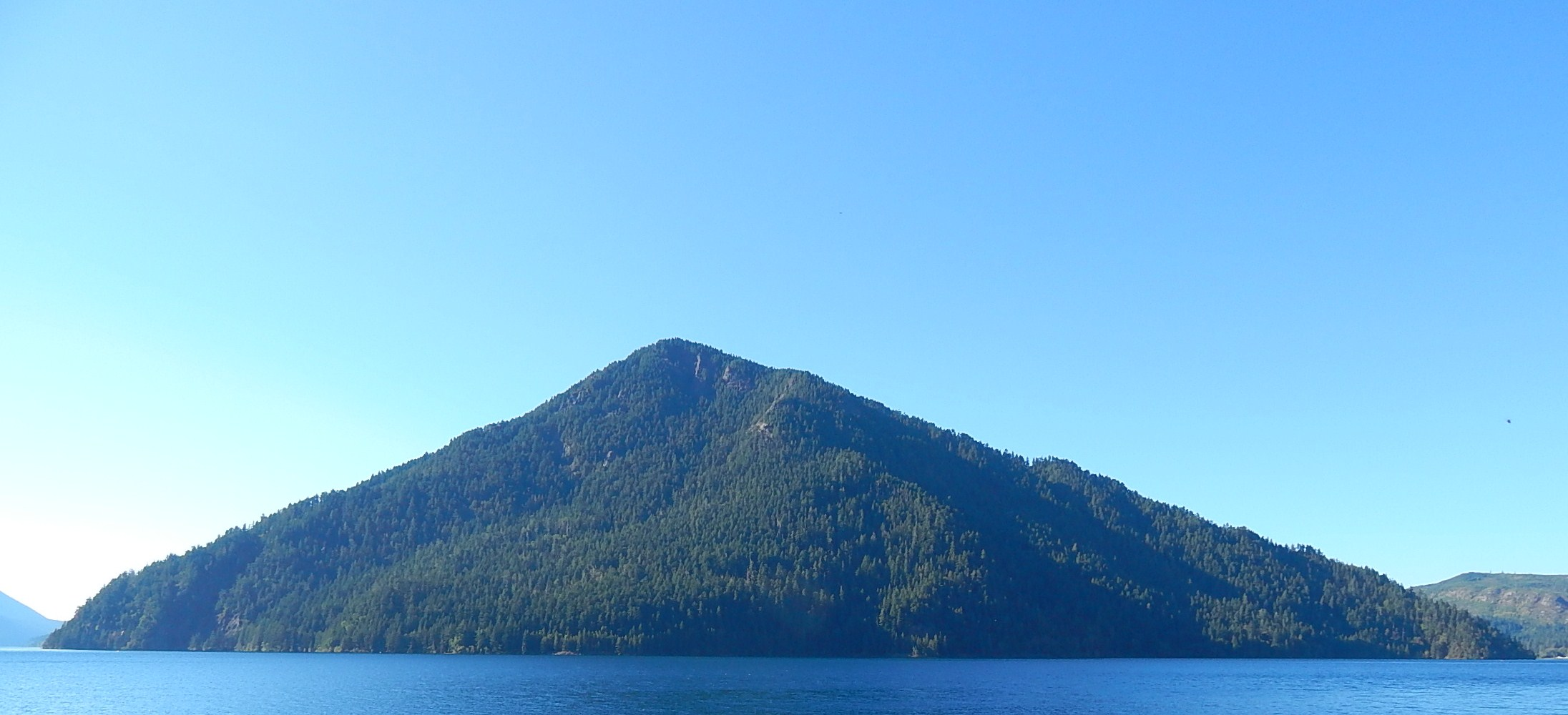 Pyramid Mountain 3125' and Lake Crescent seen from Highway 101. Olympic National Park